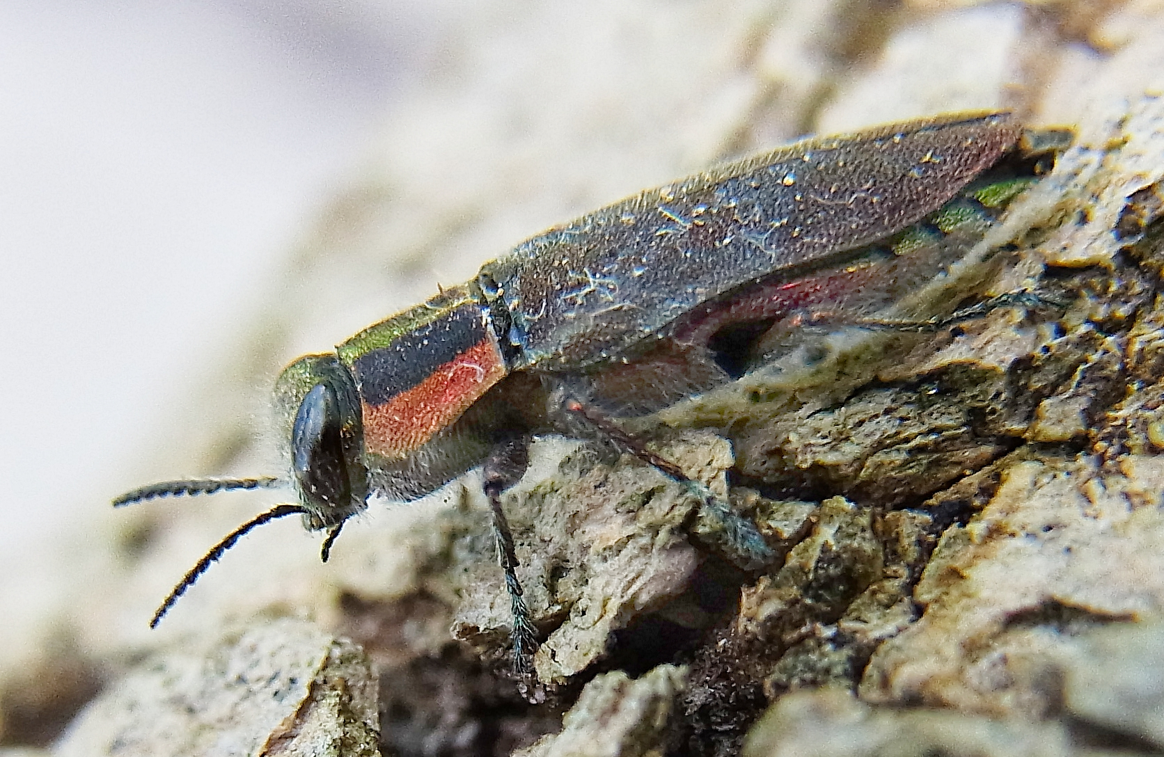 Anthaxia manca from Hungary, Csokonyavisonta at 2012-05-03